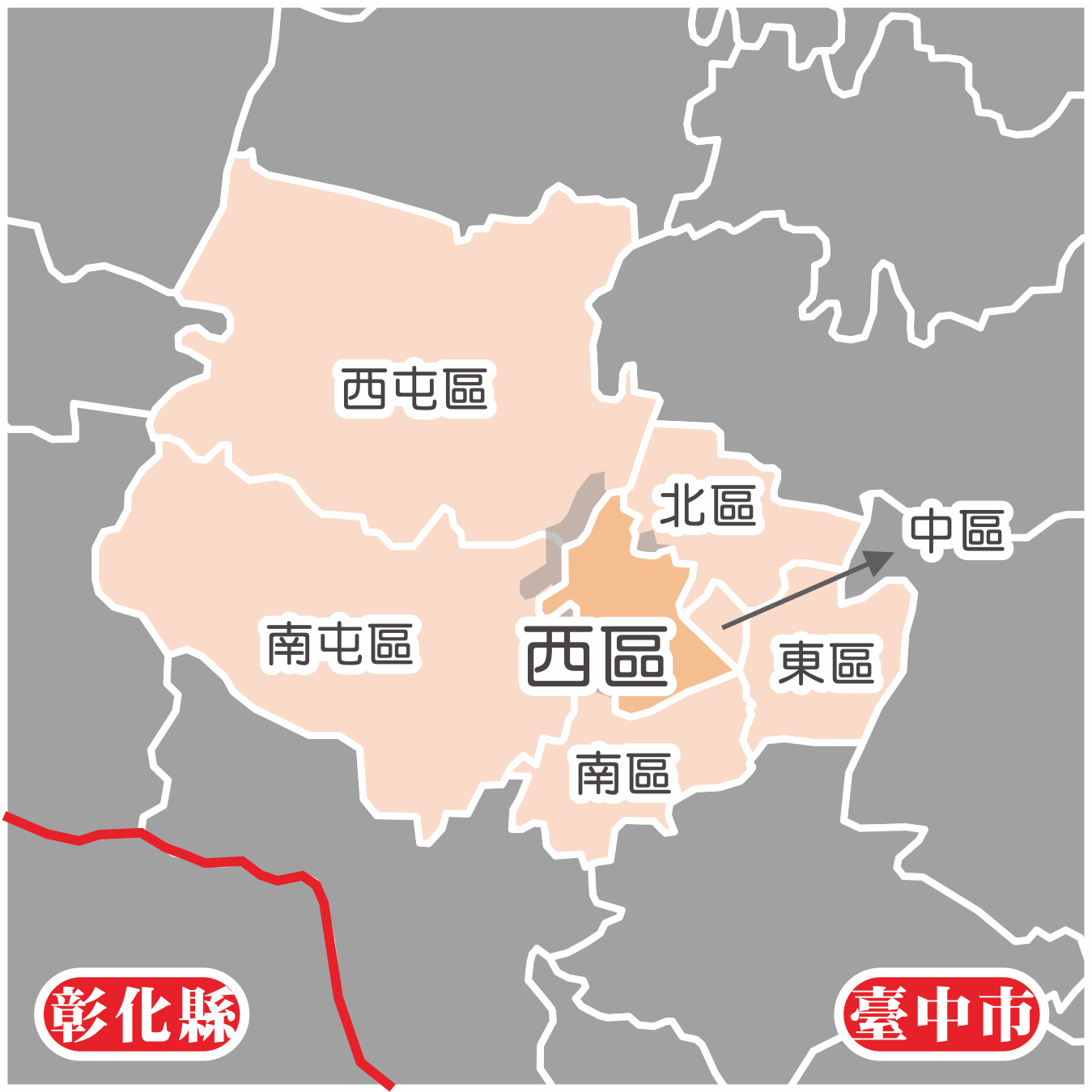 Xi District